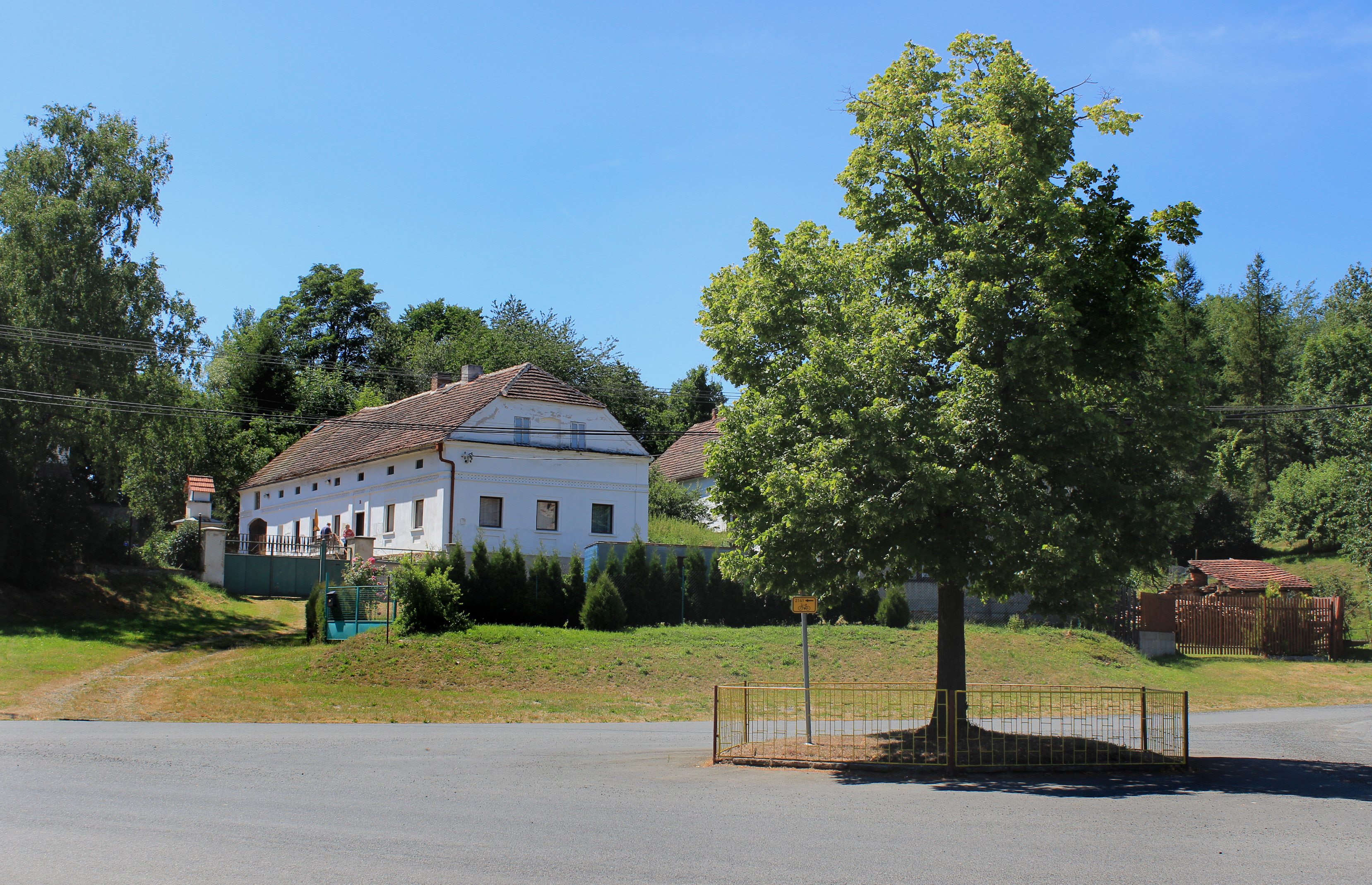 Common in Otov, Czech Republic.